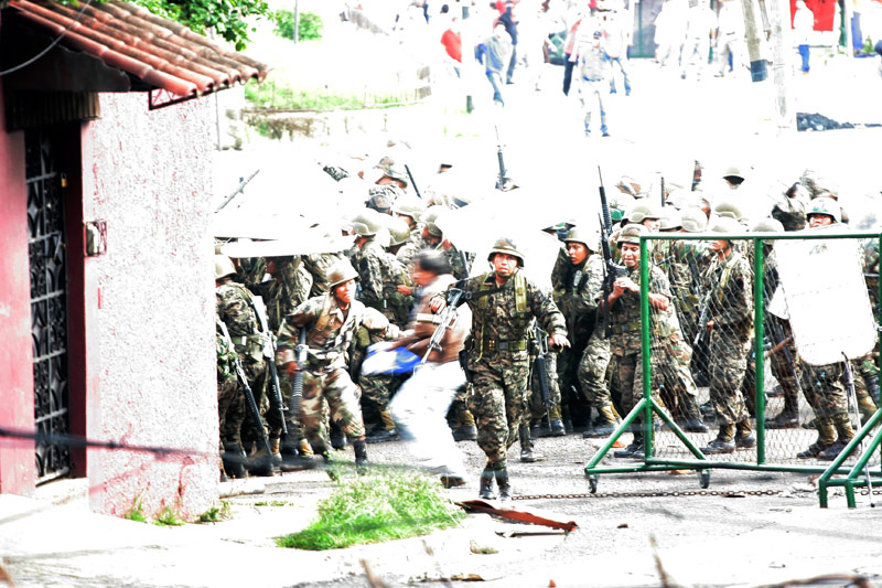 Military suppresses protest after Honduran coup (this was a very scary moment, military was firing their guns, I had to run, my camera settings were not properly set so this images are overexposed. _